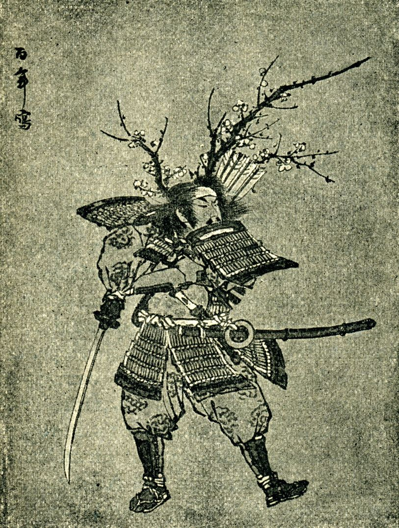 Emperor Jimmu (Jinmu-tenno; Kamuyamato Iwarebiko; Wakamikenu no Mikoto; Sano no Mikoto) - the ancestor of the Japanese mikadoes. Image from the book "Japan And Japanese" (1902). Page 38